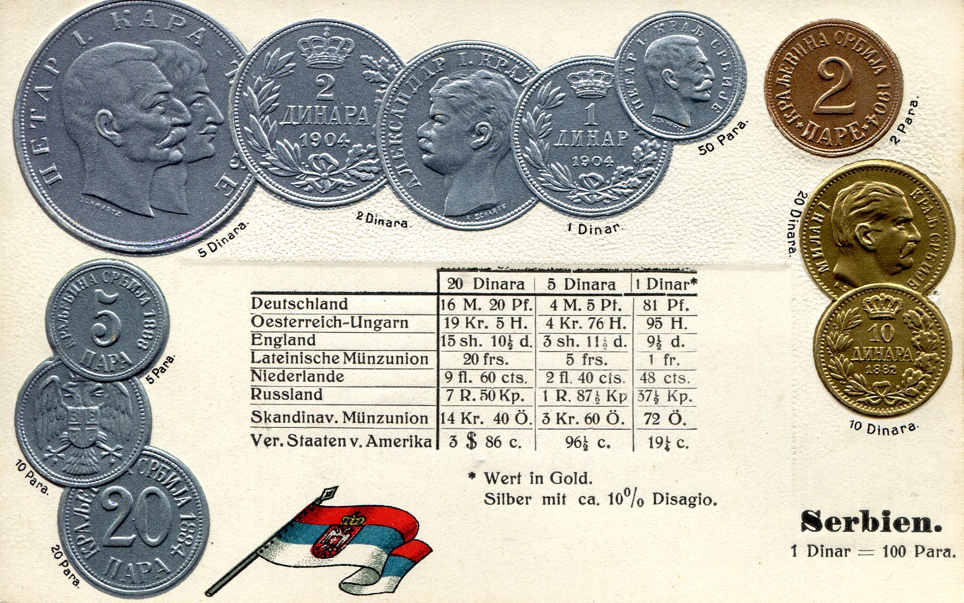 These postcards were designed by Hugo Semmler, a German businessman for cambists (people who exchange money 💴) to base their exchange courses on. After Hugo Semmler other people began producing these cards as well as they became highly popular souvenirs for tourists.